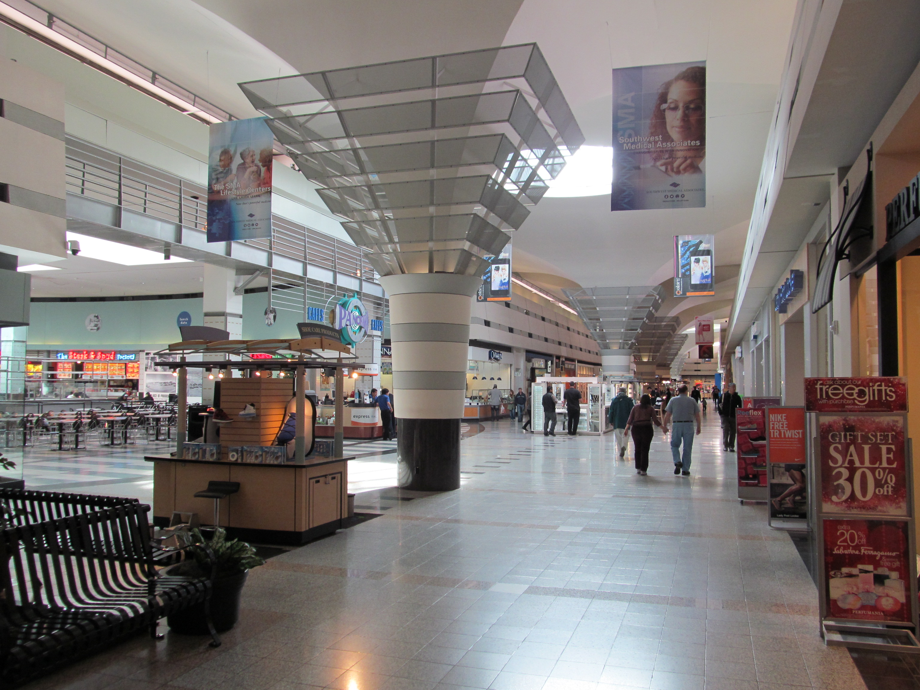 The Boulevard Mall, Paradise Nevada